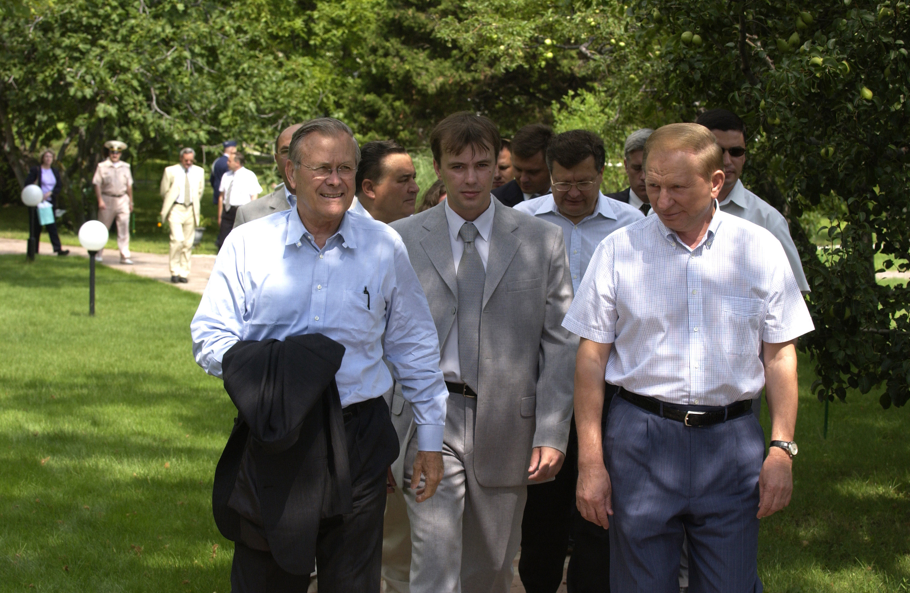 Secretary of Defense Donald H. Rumsfeld (left) strolls the grounds of the Presidential Dacha with Ukrainian President Leonid Kuchma (right) in Partenit, Ukraine, on Aug. 13, 2004. Rumsfeld thanked Kuchma for Ukraine's troop contribution to Iraq and emphasized the importance of Ukrainian relations with NATO. DoD photo by Master Sgt. James M. Bowman, U.S. Air Force. (Released) 040813-F-5586B-037